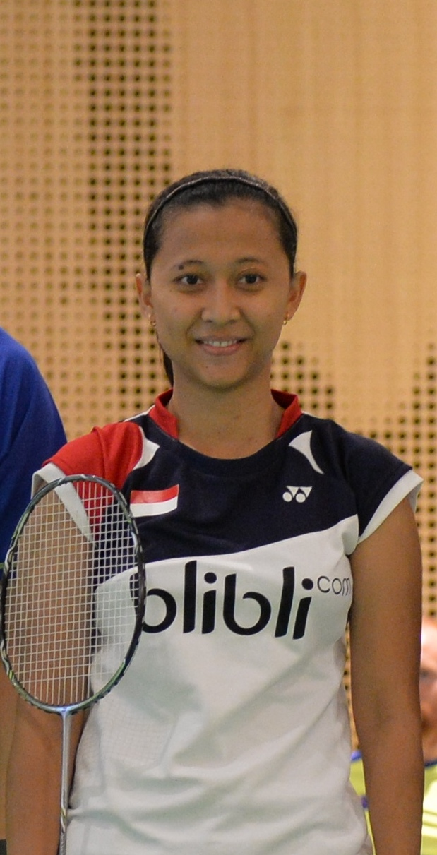 Gronya Somerville, Matthew Chau, Richi Puspita Dili and Riky Widianto at the friendly match badminton Australia and Indonesia 2016 in Australian Embassy Jakarta